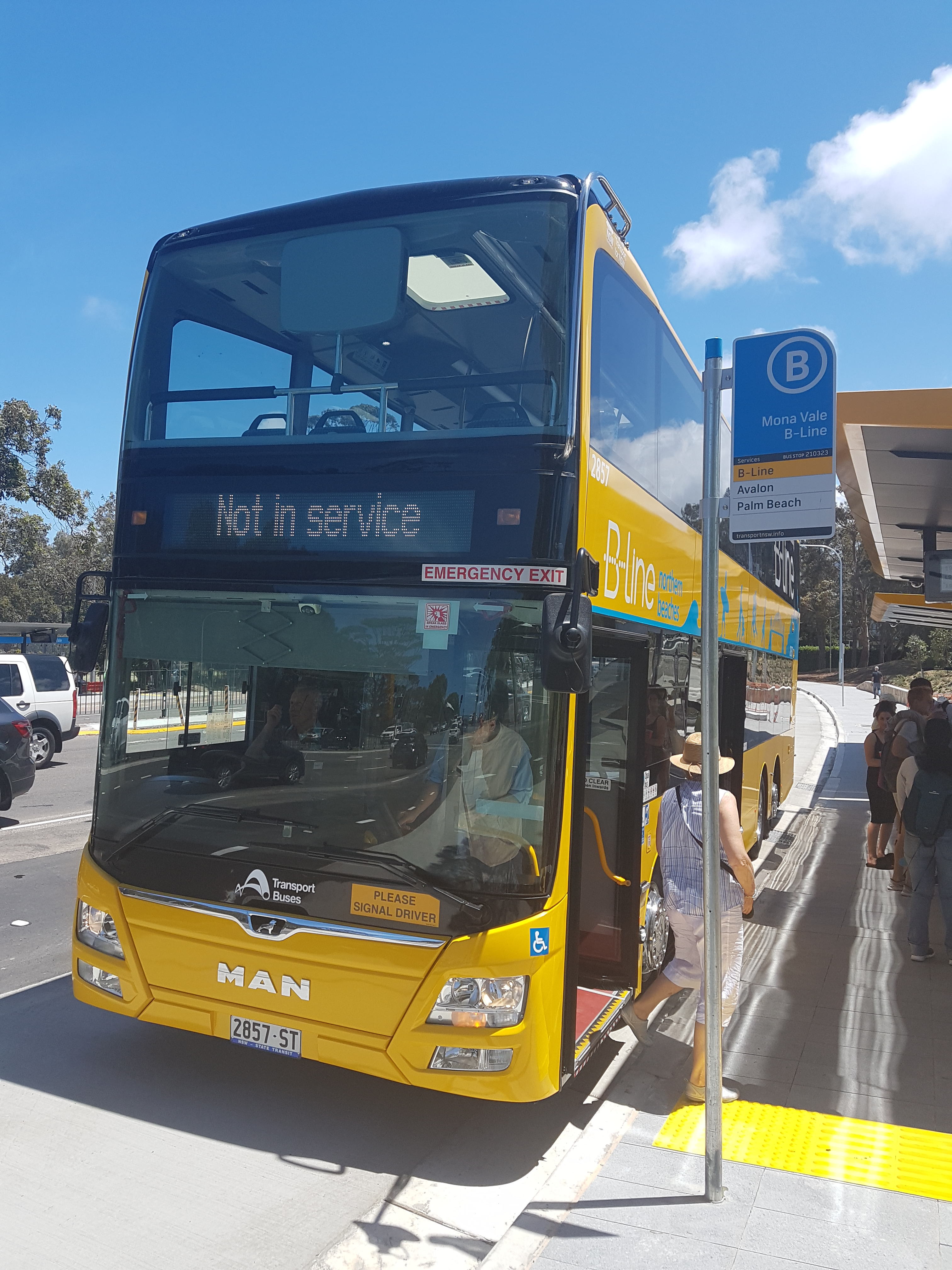 B-Line (Sydney) bus at Mona Vale, New South Wales